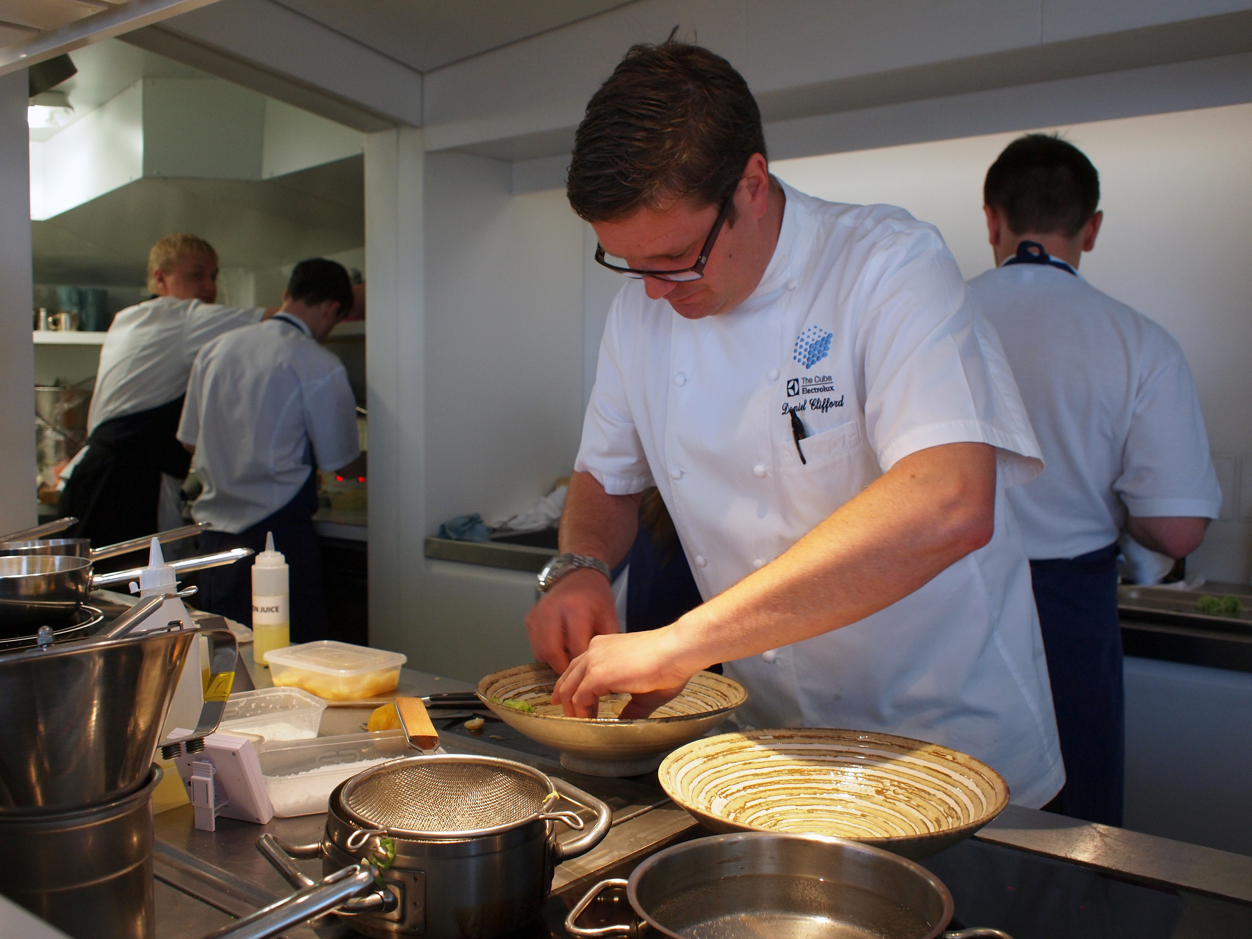 Two Michelin star chef Daniel Clifford working at The Cube, on top of London's Southbank Centre.